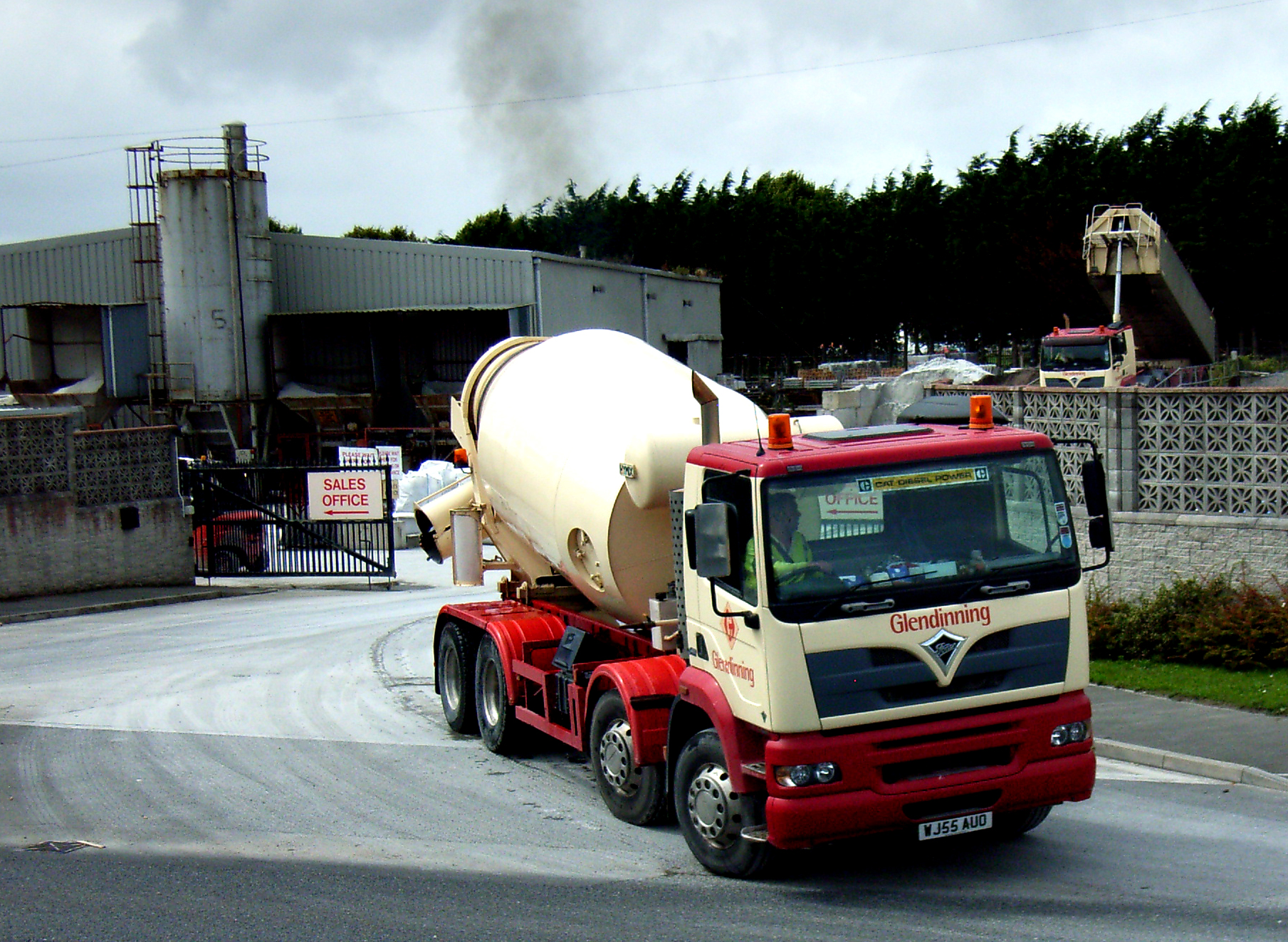 Embankment Plymouth 22/07/2009